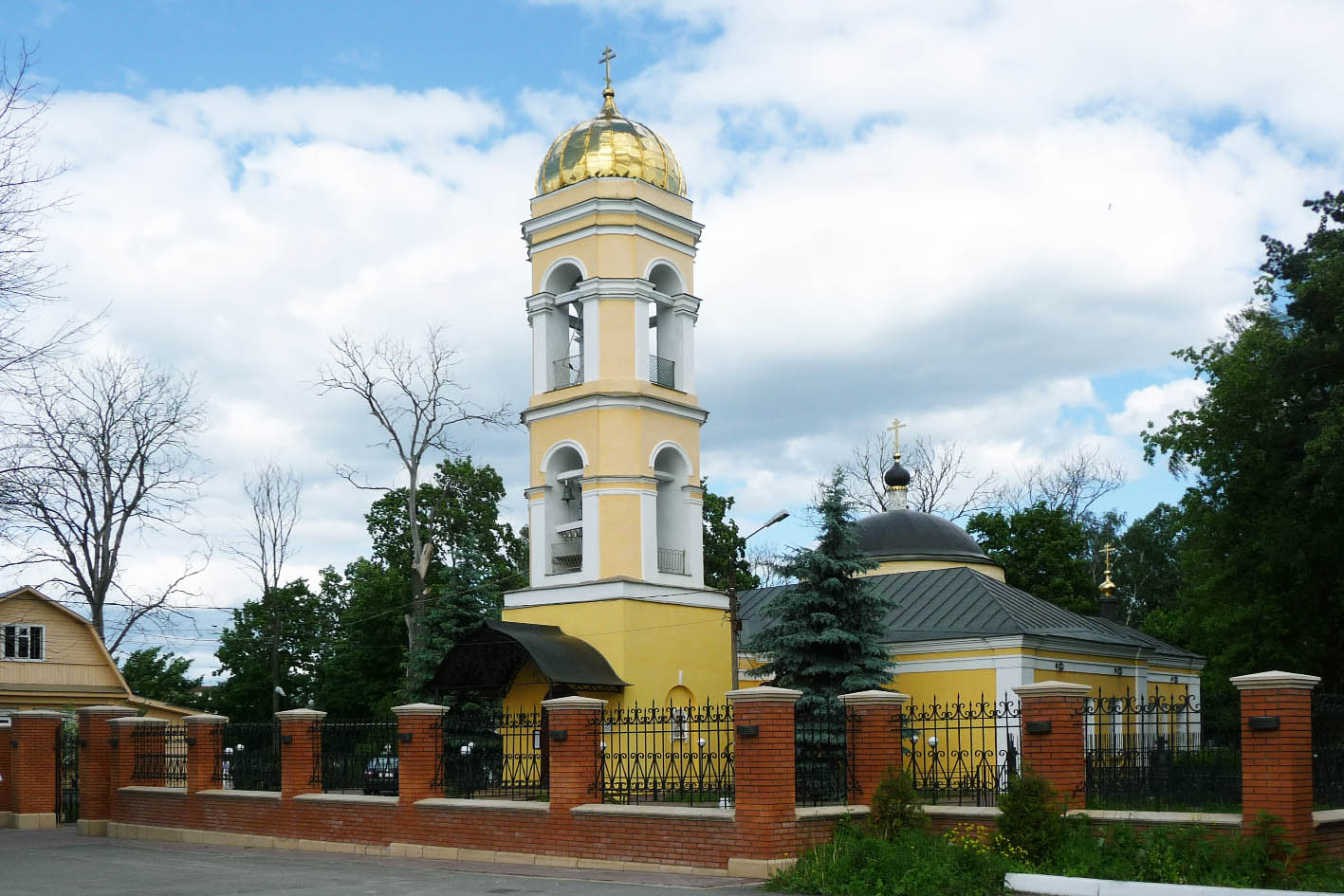 Saint_Nicholas_Church (1835) in the village of Zhegalovo. Now it is city of Shcholkovo. Shcholkovsky District. Moscow oblast. Russia.